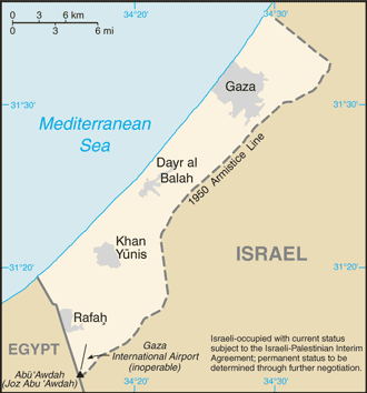 A map of the Gaza Strip showing key towns and neighbouring countries.